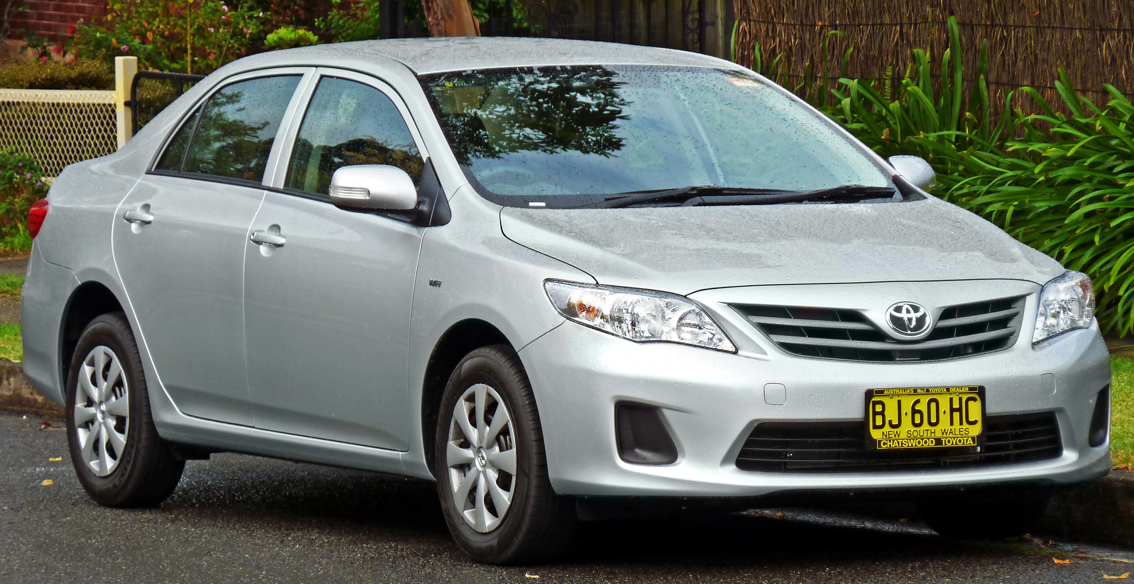 2010–2011 Toyota Corolla (ZRE152R MY11) Ascent sedan. Photographed in Lindfield, New South Wales, Australia.